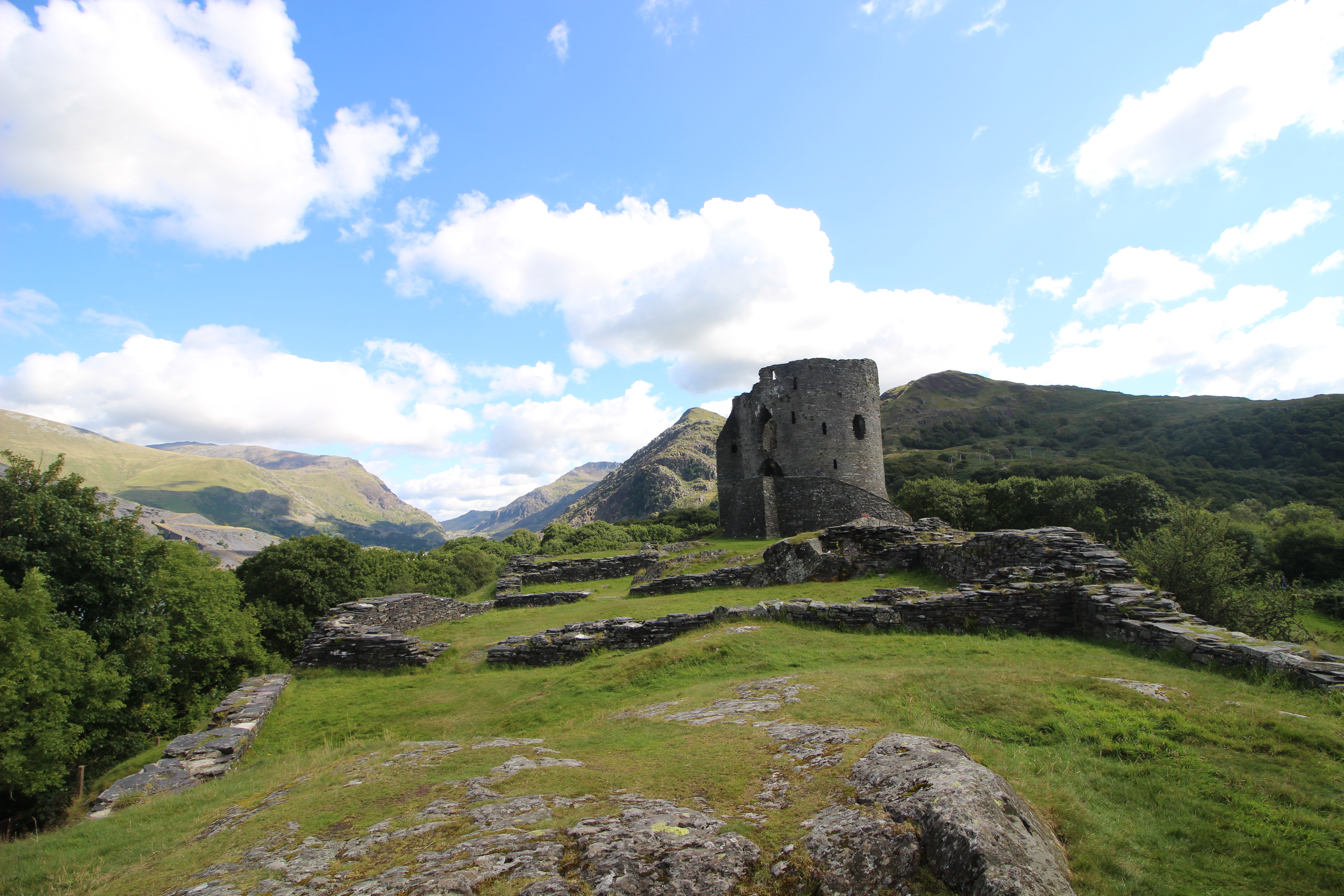 Dolbadarn Castle Wikidata has entry Q2078555 with data related to this item.